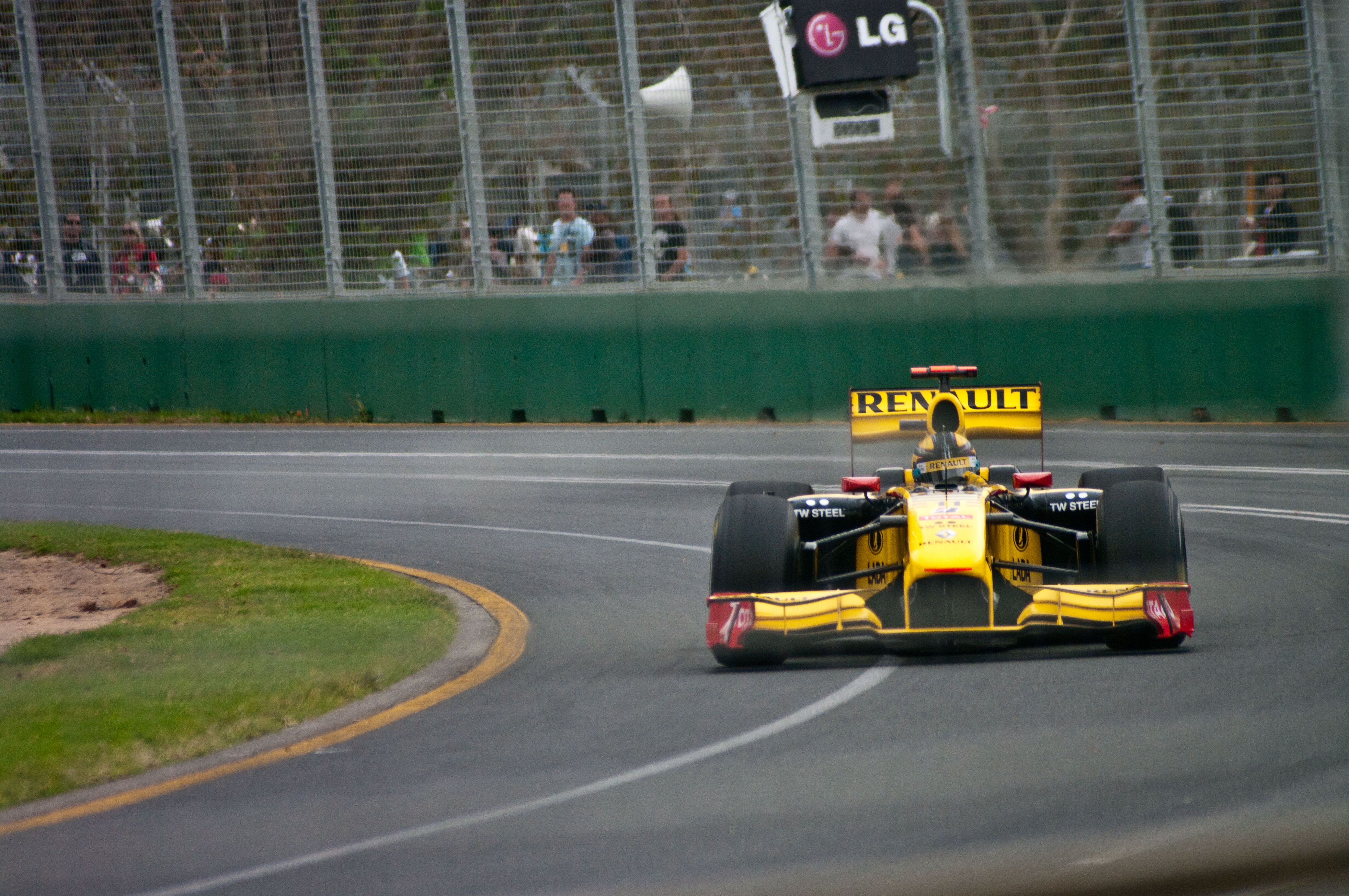 Robert Kubica driving for Renault F1 at the 2010 Australian Grand Prix.